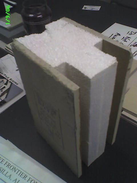 Orthographic View - ThermaSAVE panel segment at joinery abut/edge